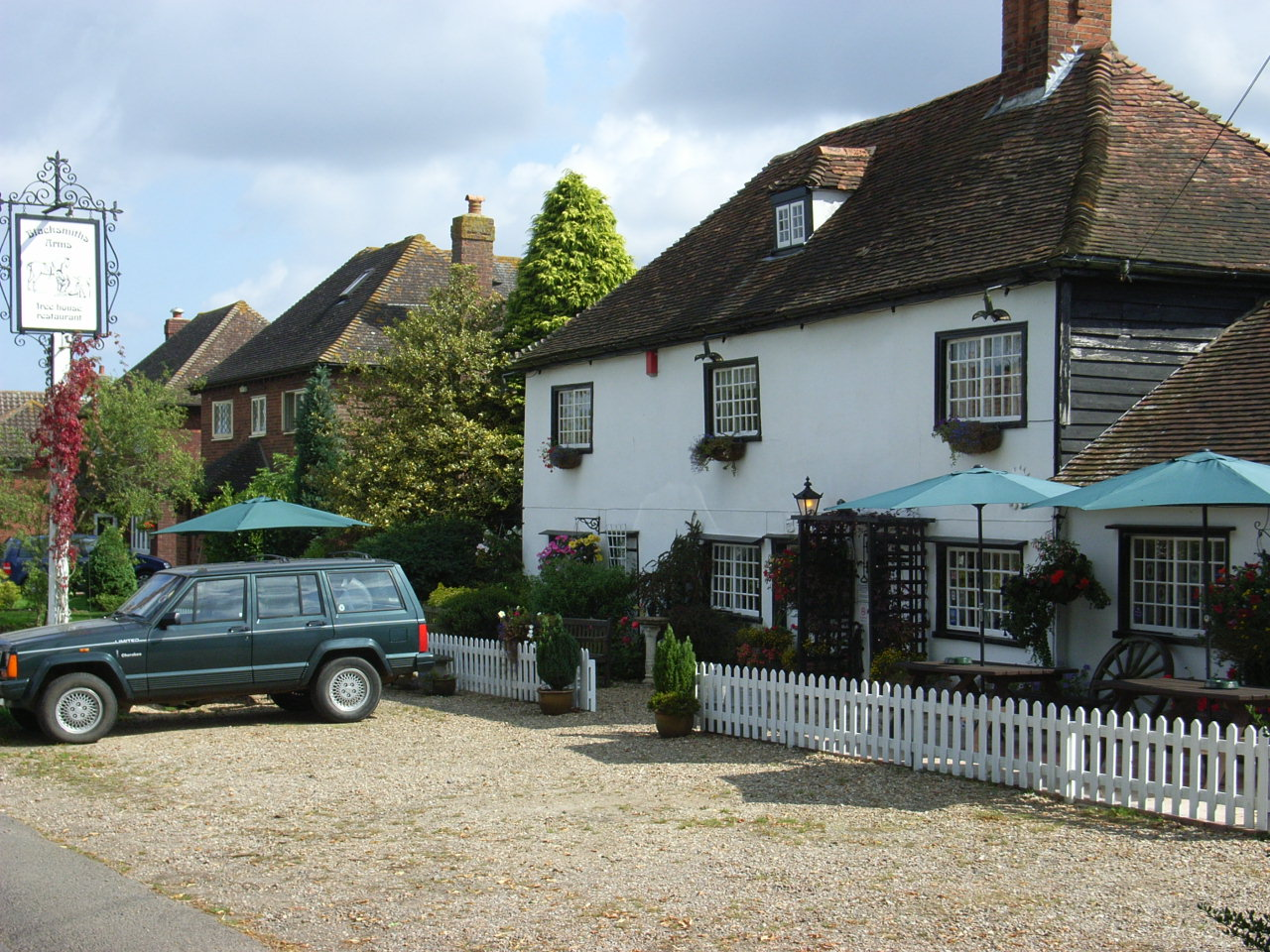 Blacksmiths Arms, Wormshill. The pub is principally a restaurant now with varied opening hours. Previously it was a busy village pub with a public and saloon bar. It remains popular with visitors from outside the village